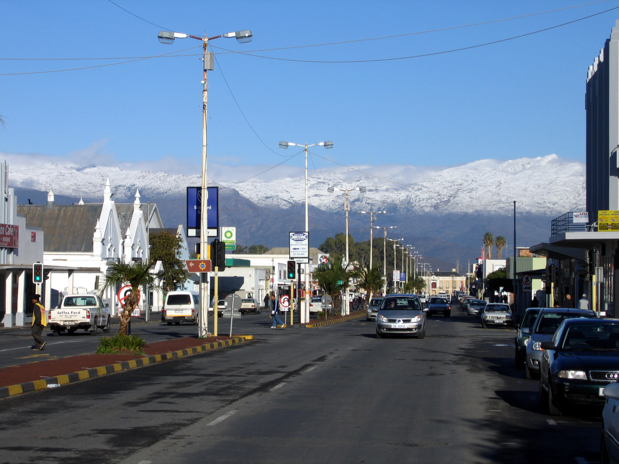 Intersection of High Street and Adderley Street in the Worcester CBD looking south-west. At the end of the street is the Drostdy Technical High School, and the backdrop is formed by the snowcovered Hawequas Catchment Area of the Klein Drakenstein Mountains.